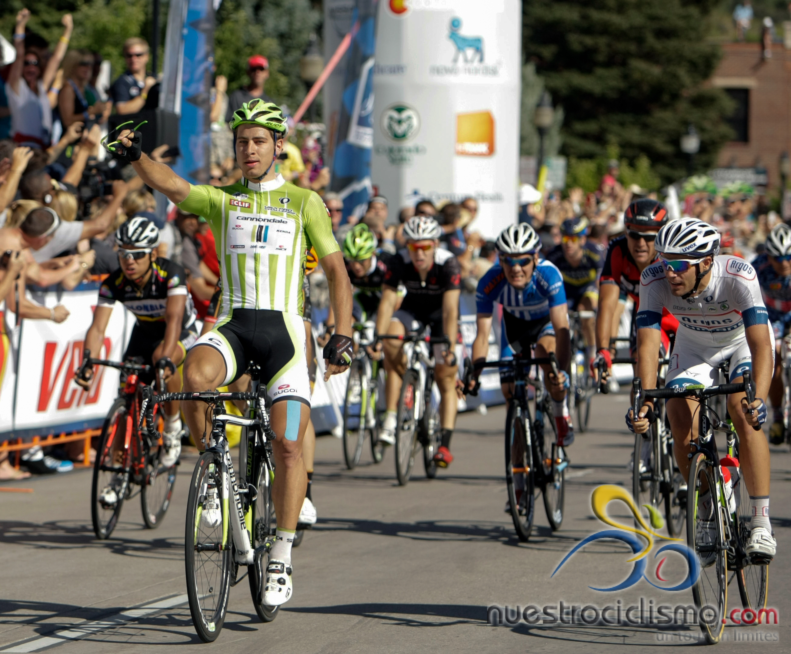 Peter Sagan won stage 3 in Steamboat Springs